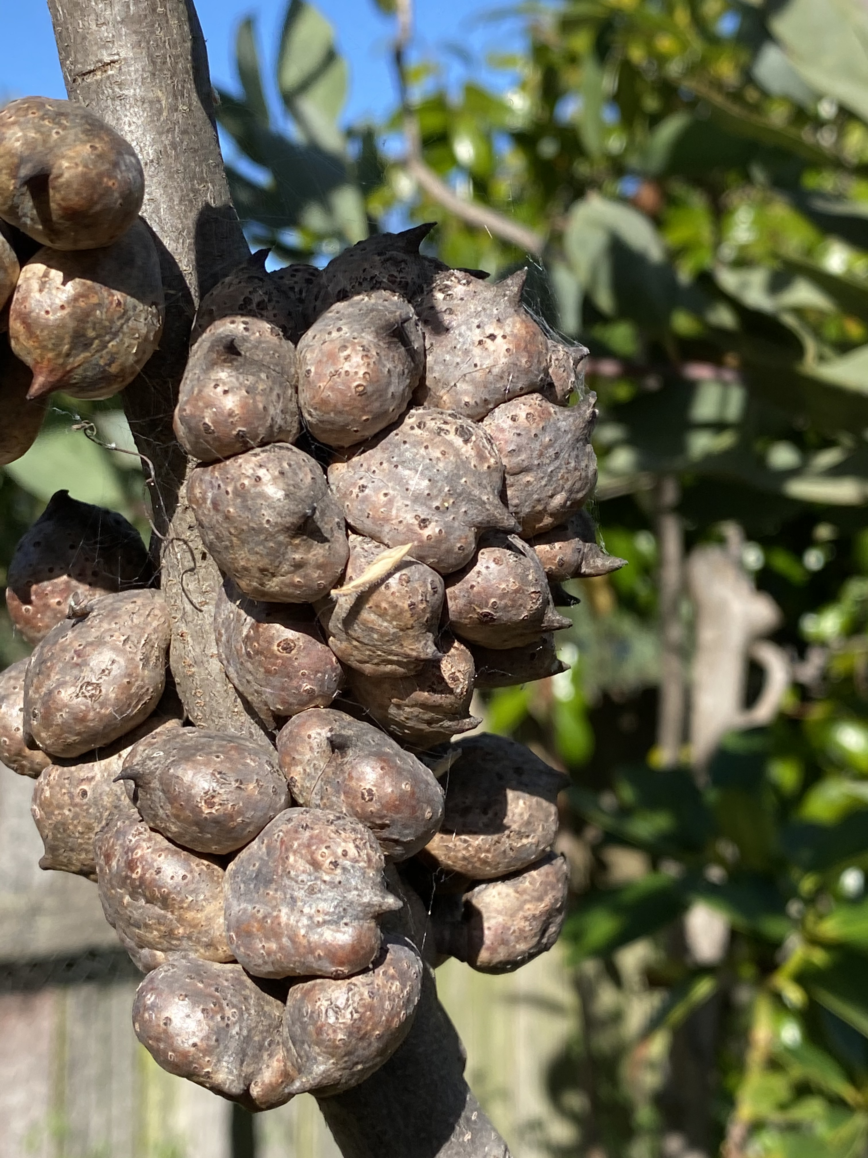 Hakea petiolaris fruit a cultivated specimen growing in a garden in Mittagong, New South Wales